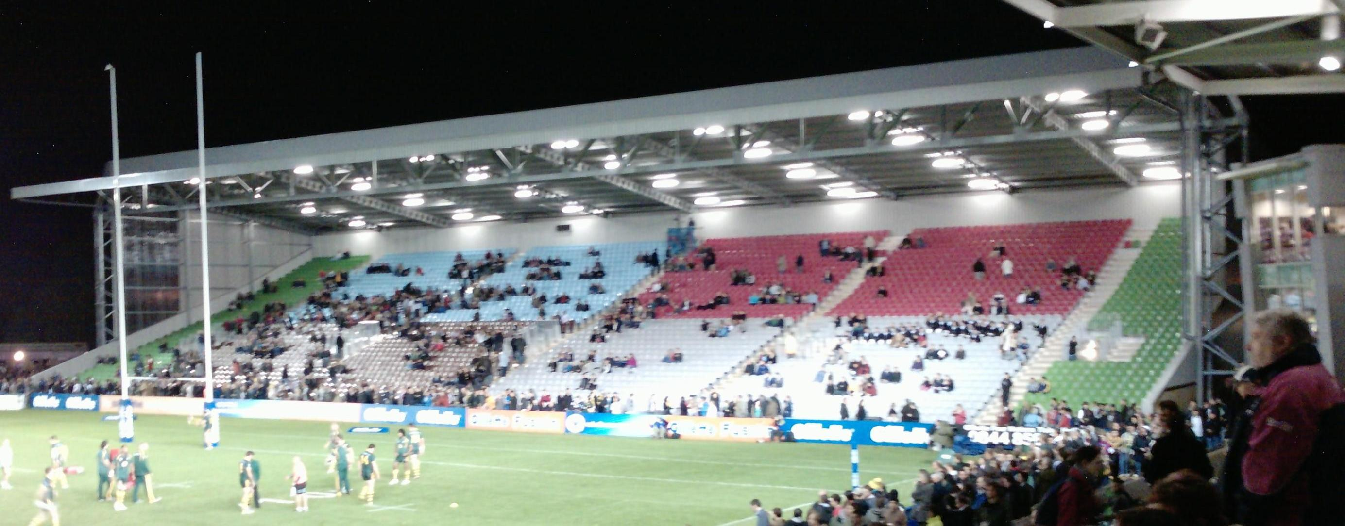 South Stand of the Twickenham Stoop at the Australia vs New Zealand Four Nations match.